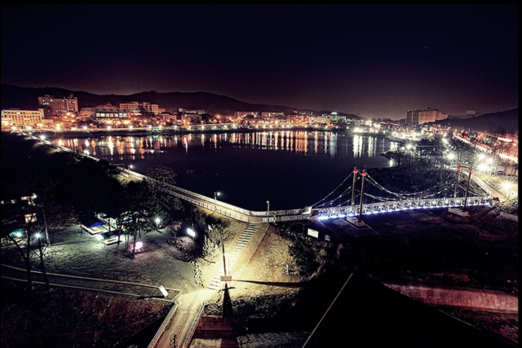 Dankook anseoho Night (Cheonan, Land Area: 658,953㎡ (excluding the site of Dankook University Hospital))